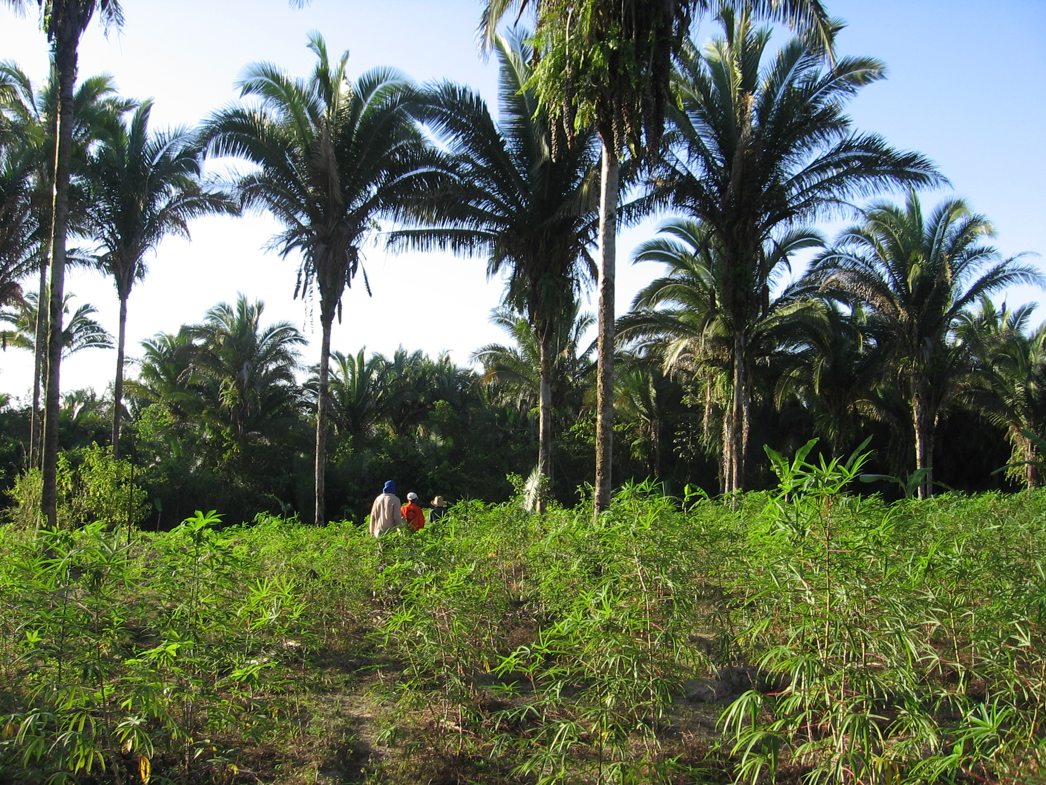 Attalea speciosa (babassu) at cassava plantation, Itapecuru-Mirim, Maranhão state, Brazil